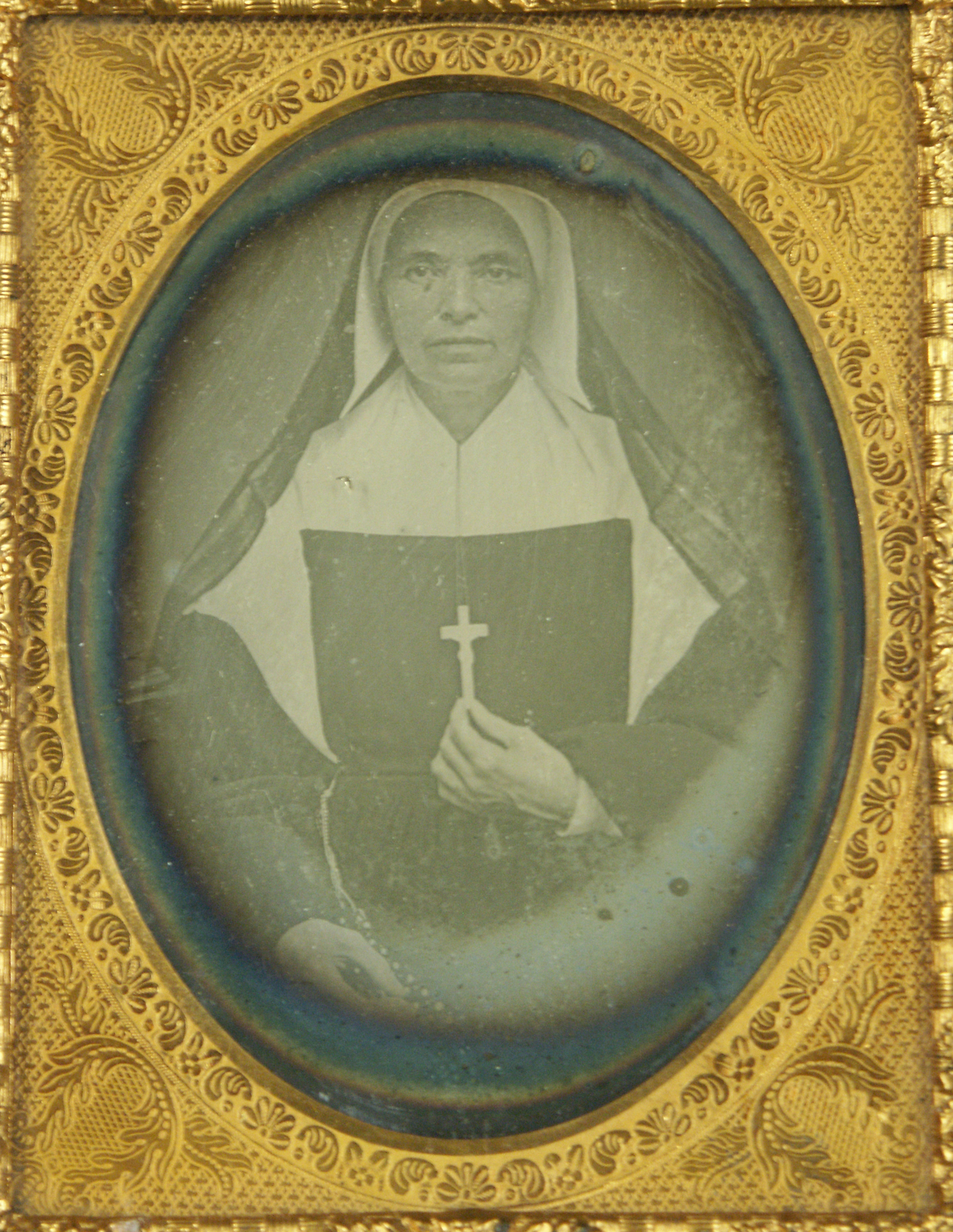 Daguerreotype of Mother Theodore Guerin (Saint Theodora) (1798-1856).